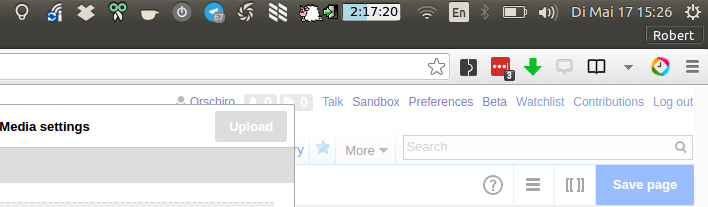 Screenshot that shows how Workrave integrates into Ubuntu Unity.